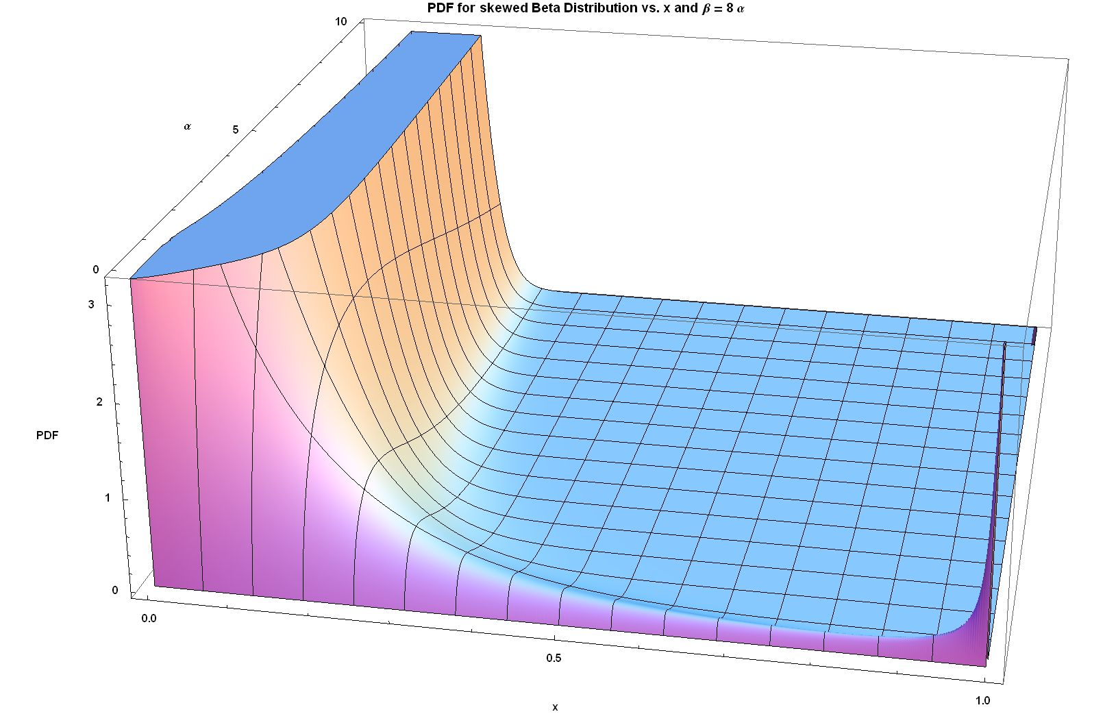 PDF for skewed beta distribution vs. x and beta= 8 alpha from 0 to 10 - J. Rodal